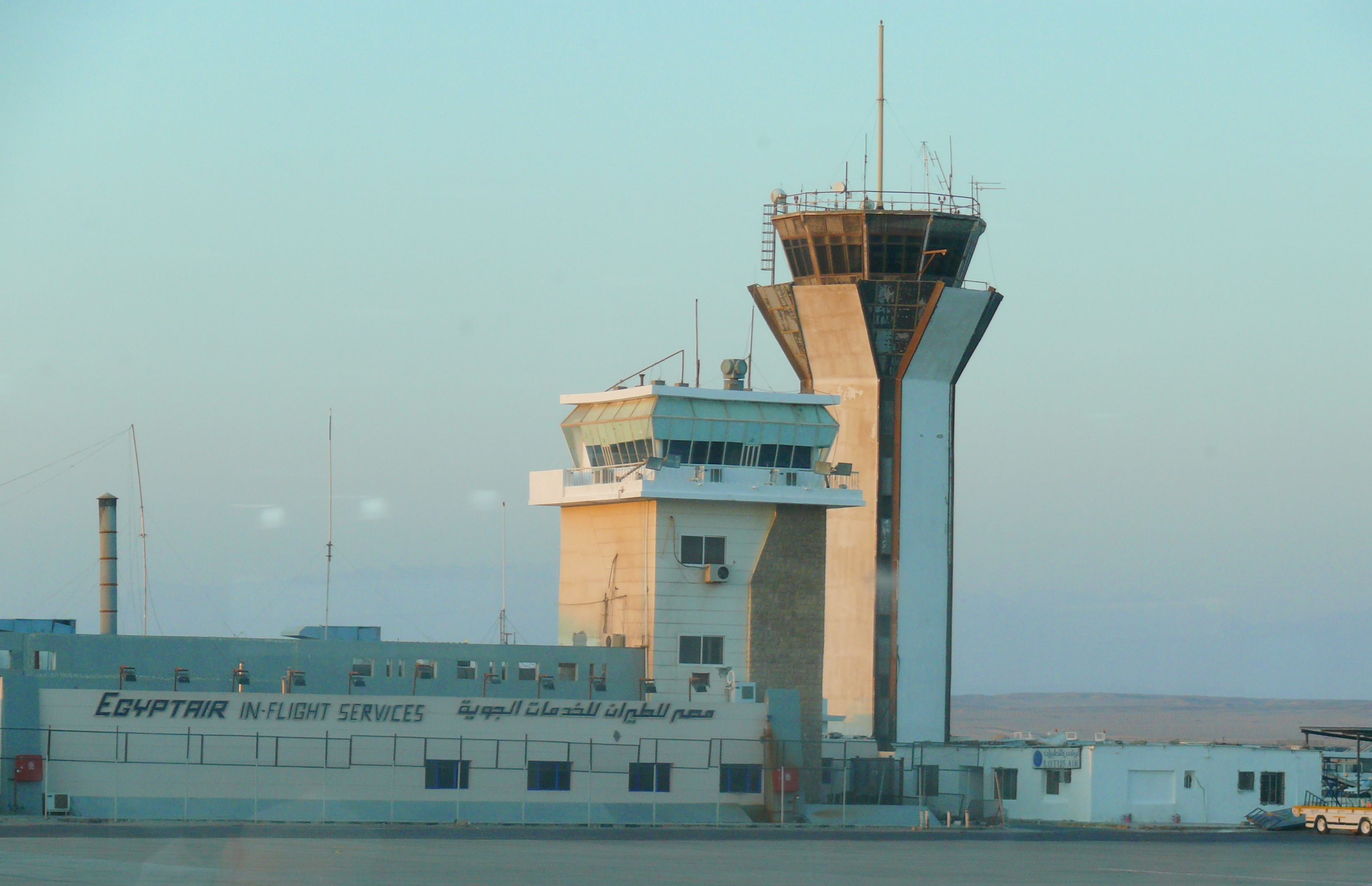 Airport towers at Hurghada International Airport.